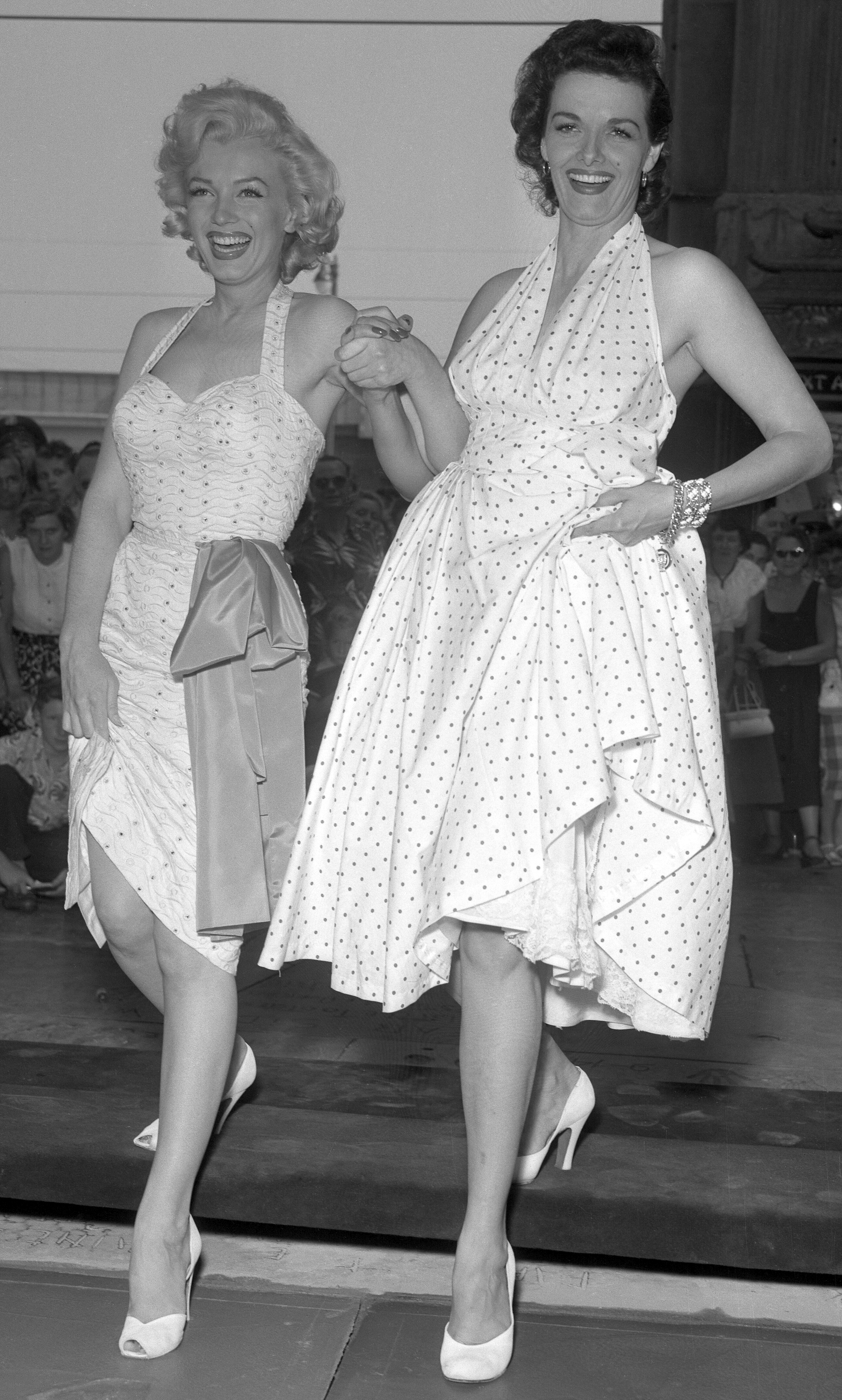 Marilyn Monroe and Jane Russell putting footprints in wet concrete at Chinese Theater in Los Angeles, Calif., 1953